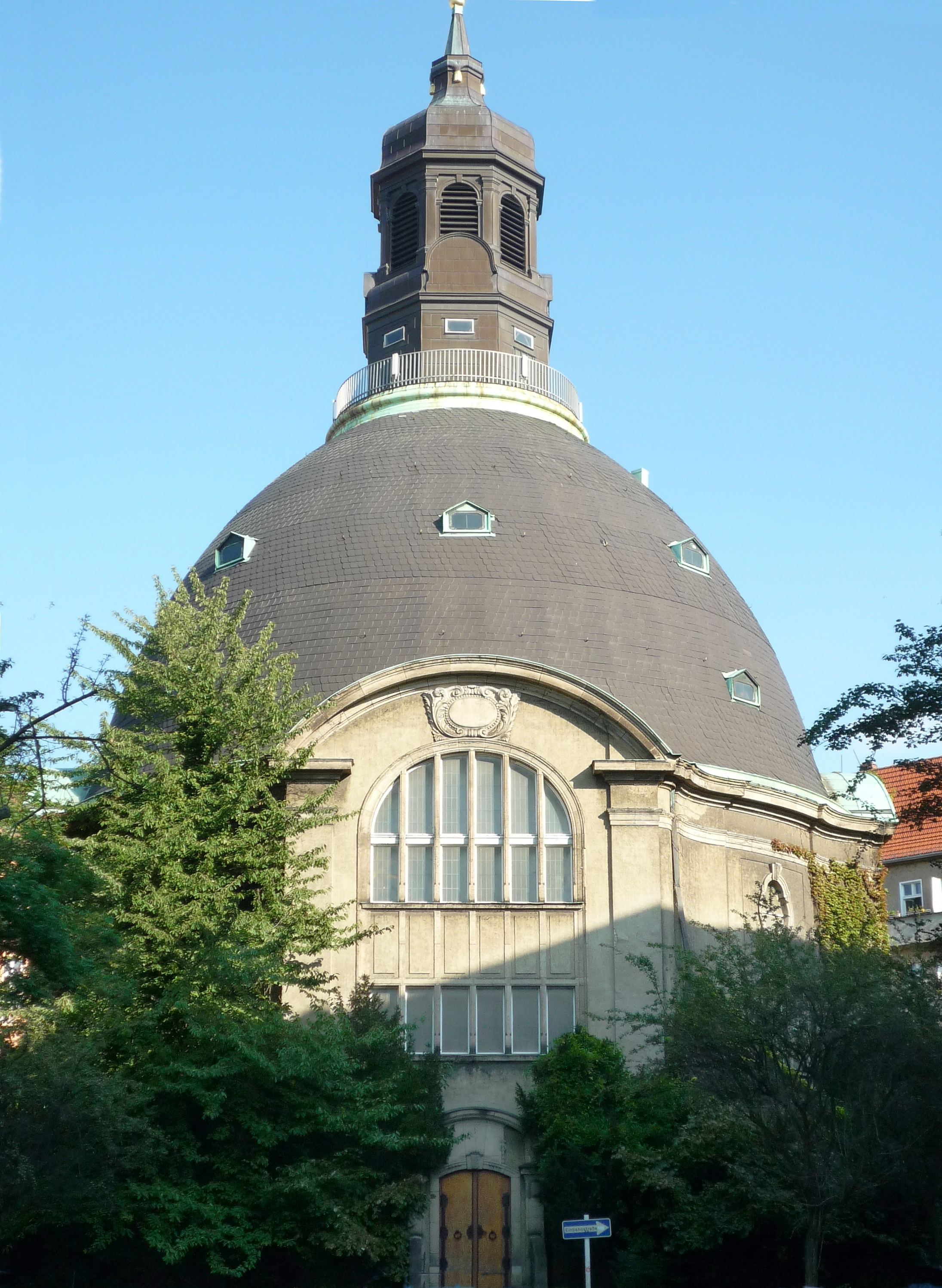 The Königin-Luise-Gedächtniskirche / Queen Luise (Louise of Mecklenburg-Strelitz) Memorial Church at Gustav-Müller- Platz in Berlin-Schöneberg. Built in 1910-12, architect: F. Berger.